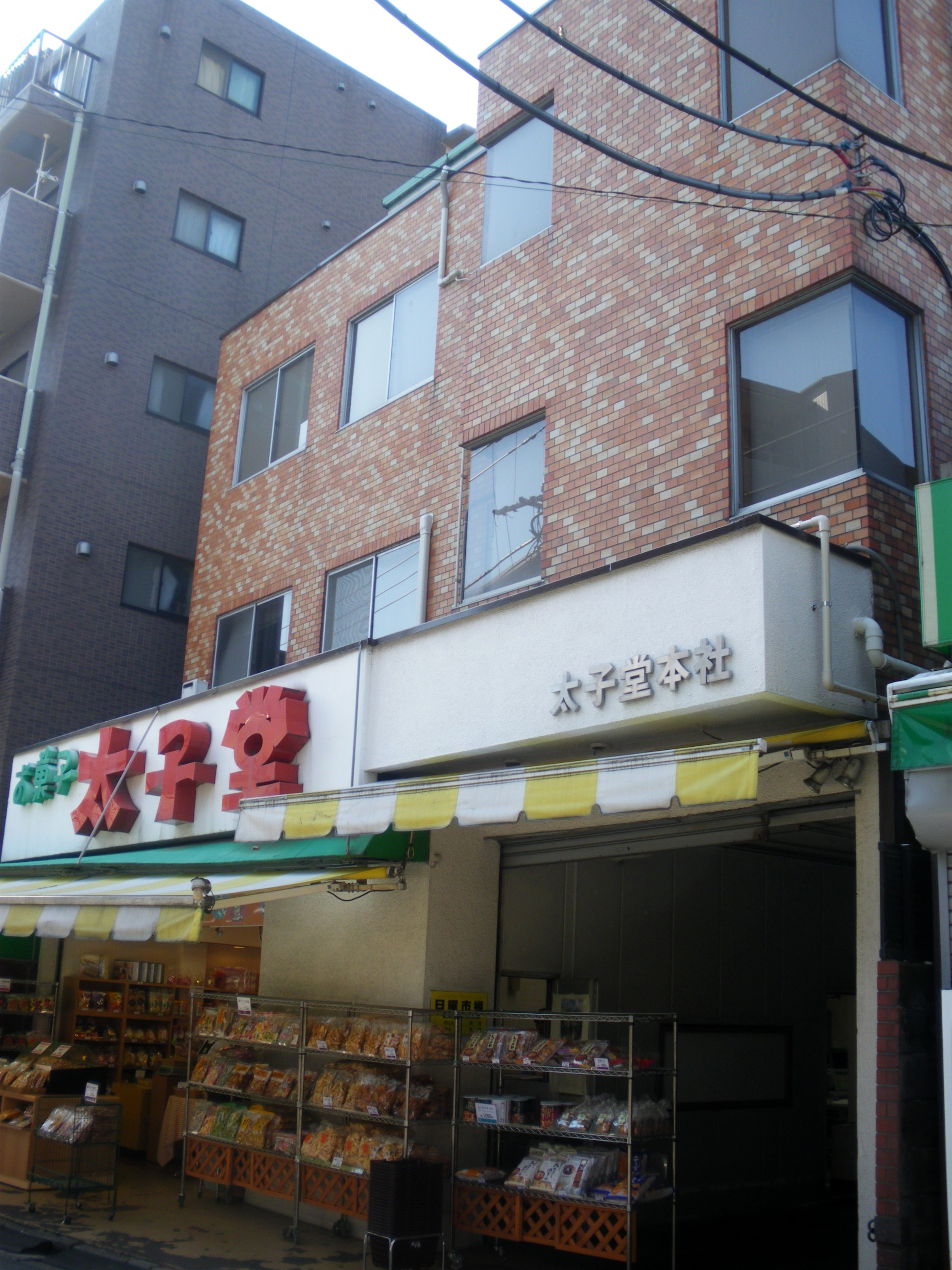 Okashi no Tashido head office(Setagaya,Tokyo)